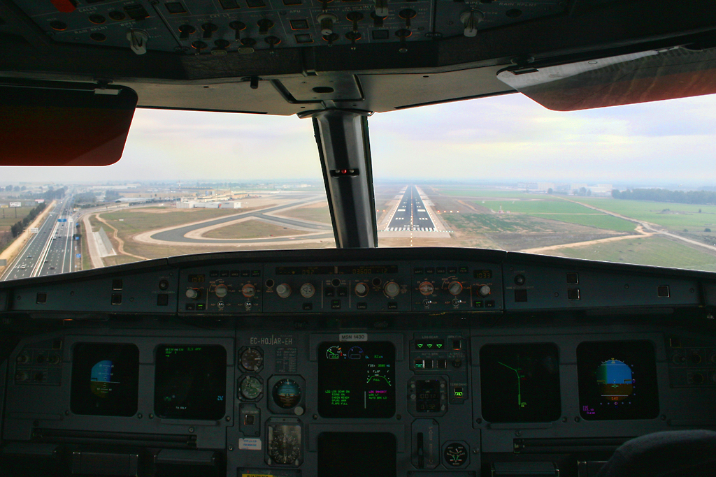 Final runway 09 of Seville Airport.